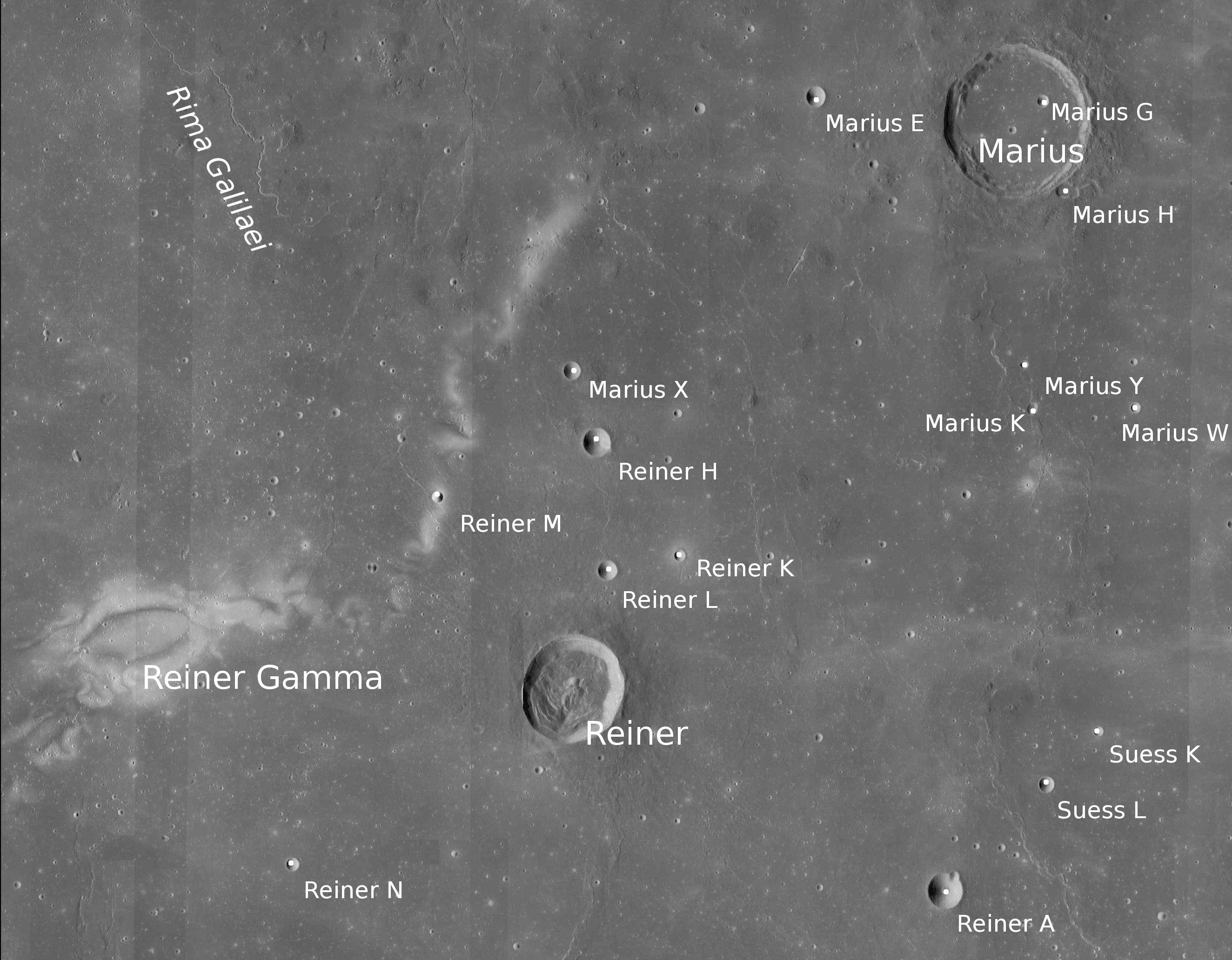 Craters Marius and Reiner and Rima Galilaei (detail of LRO - WAC global moon mosaic; Mercator projection)